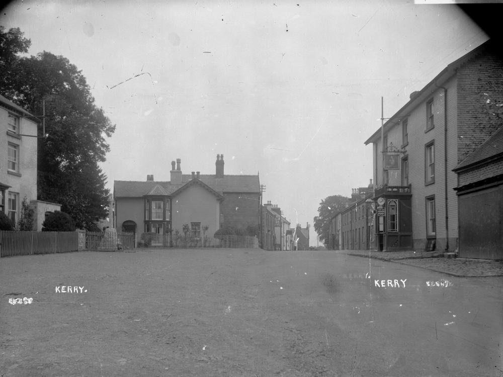 Abstract: Kerry